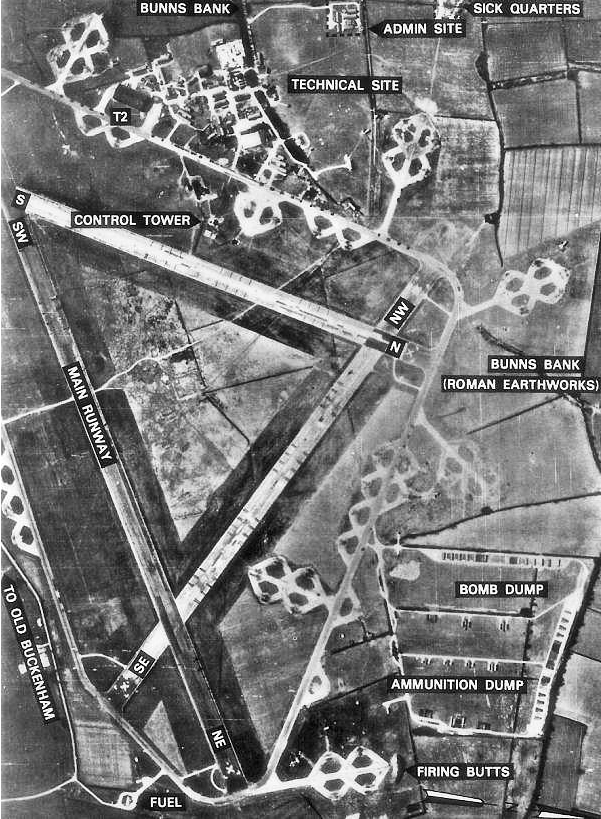 Aerial photograph of Old Buckenham Airfield, England.